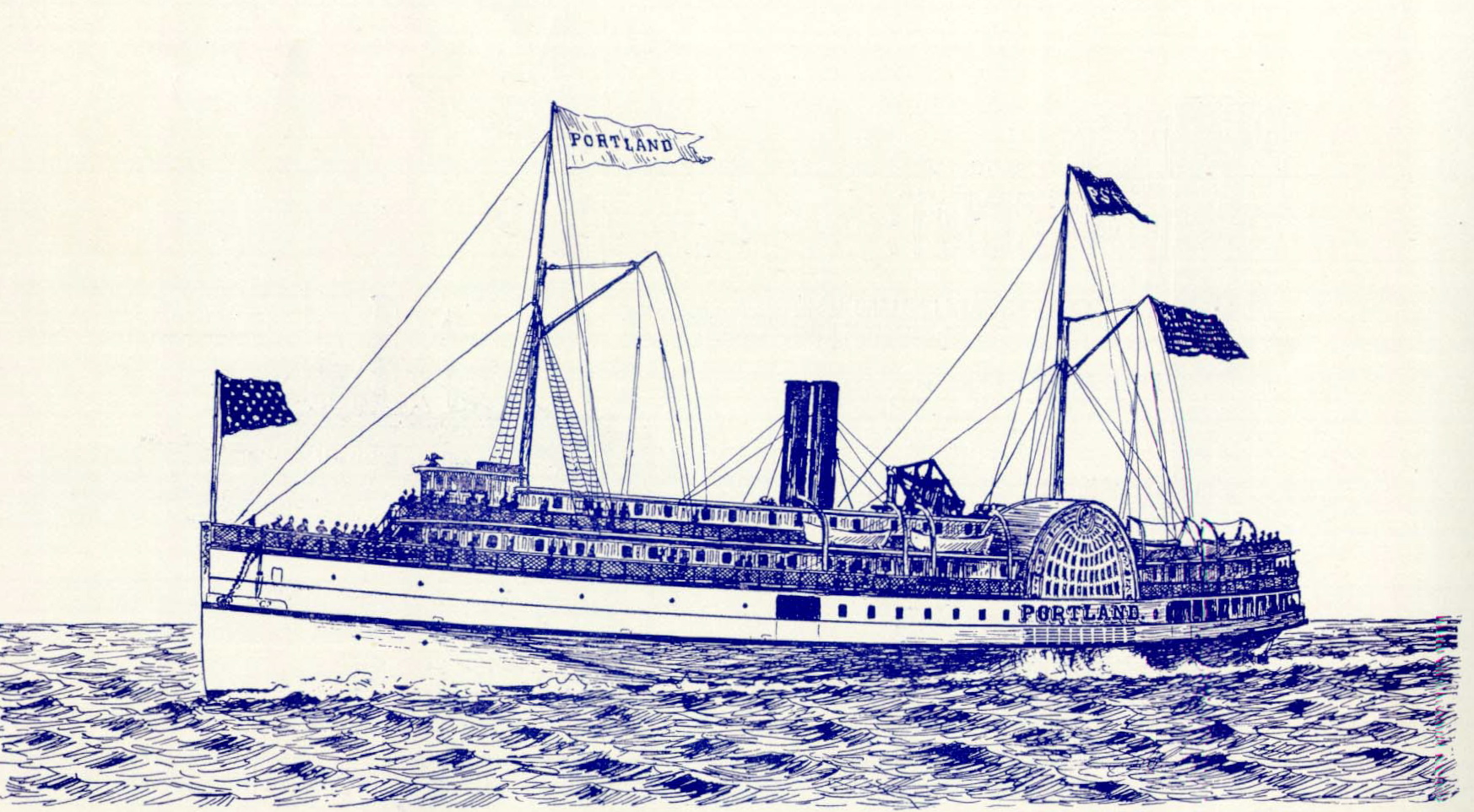 Sidewheel steamer Portland, sunk with all aboard in the Portland Gale, November 26, 1898